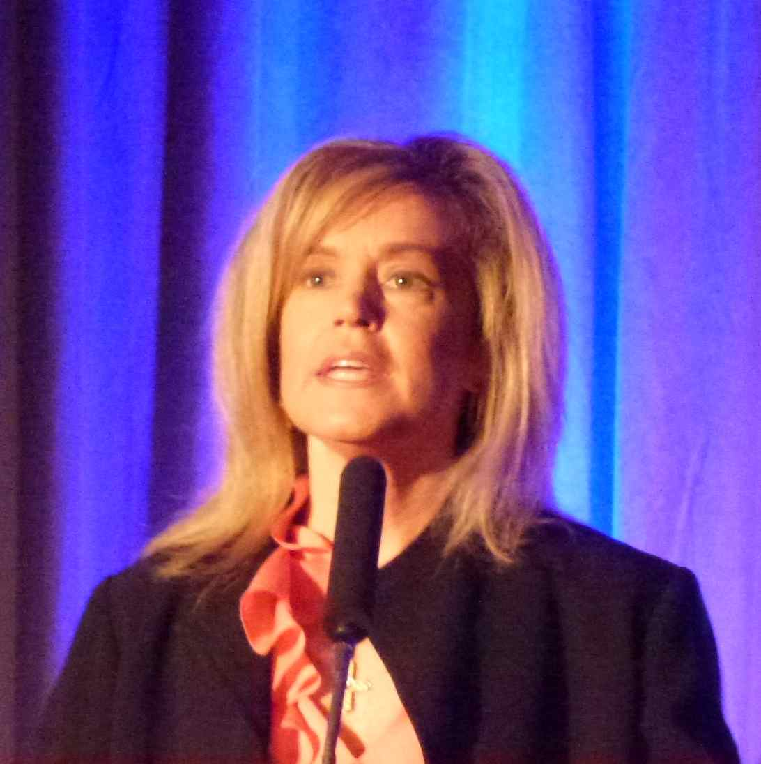 Charli Turner Thorne Arizona State Sun Devils head women's basketball coach and 2012-13 WBCA President. She is addressing the WBCA general session at the close of her term.